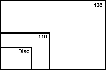 Frame size comparison of 135 (35mm), 110 (16mm), and Disc film. Scale: 10 pixels = 1mm.